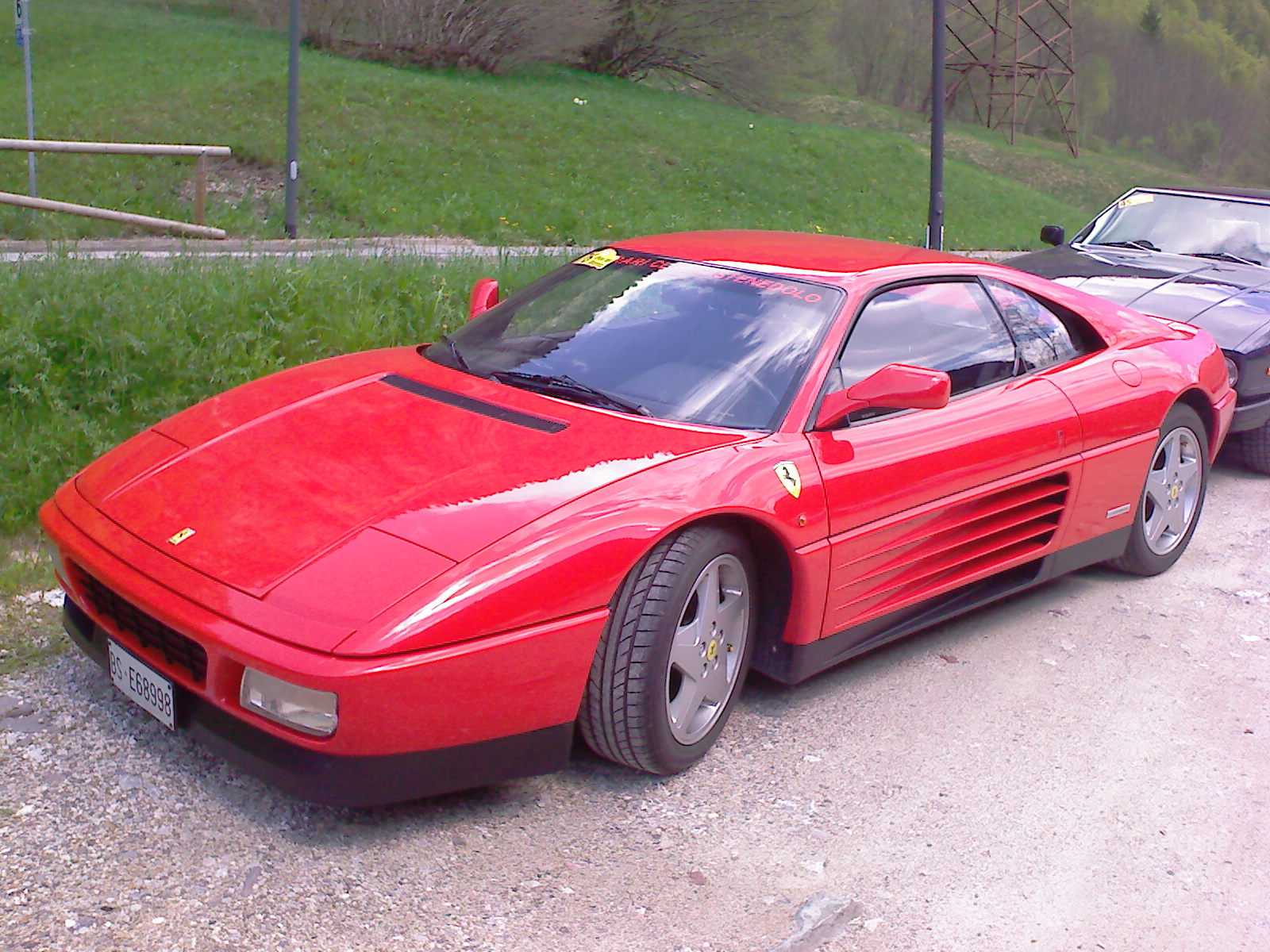 Ferrari 348 TB. Picture taken at Daone (Trento, Italy), on 30 april 2009